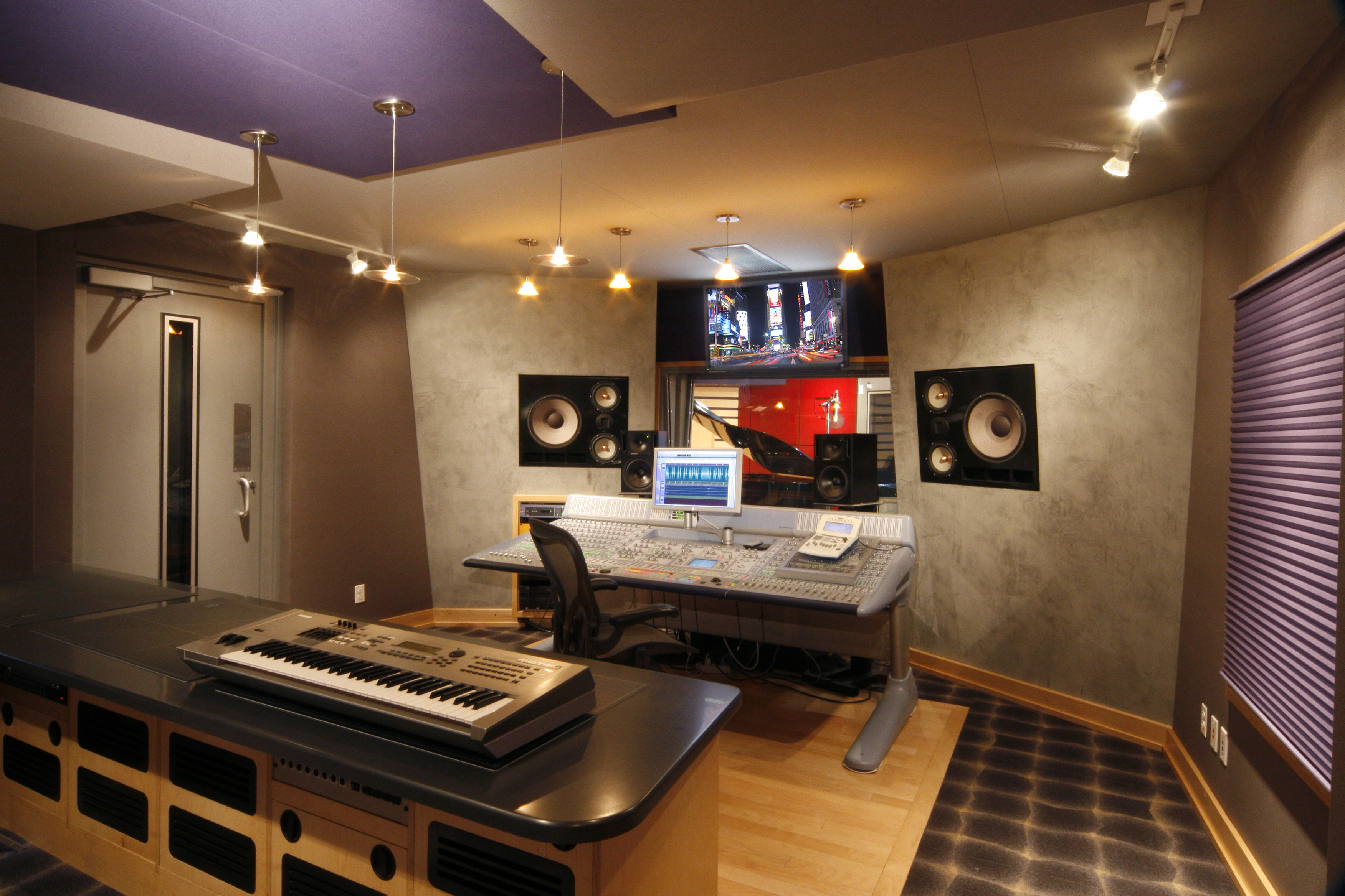 KMA Music's Studio A Control Room digidesign ICON D-Control Lexicon 960L/LARC2 Remote Controller ? unknown large monitors Genelec 1031 Yamaha Motif 6